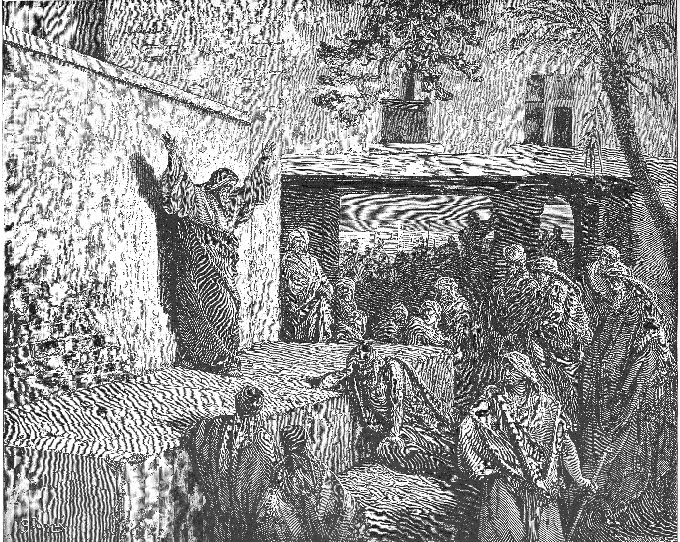 Micah Exhorts the Israelites to Repent (Micah 7:1-20)